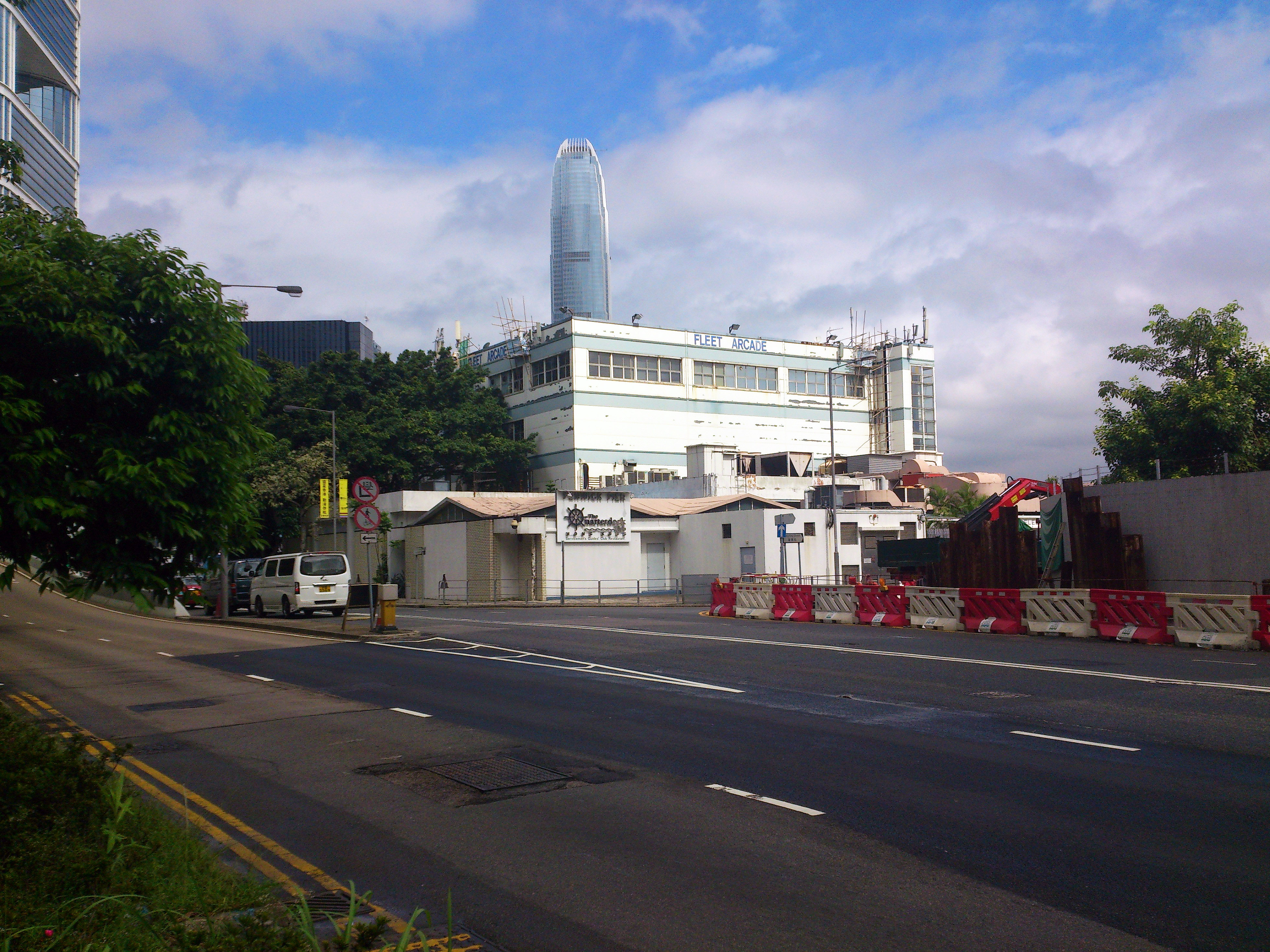 Fleet Arcade on Fenwick Pier Street